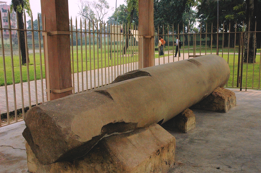 Kumhrar, Maurya pillar